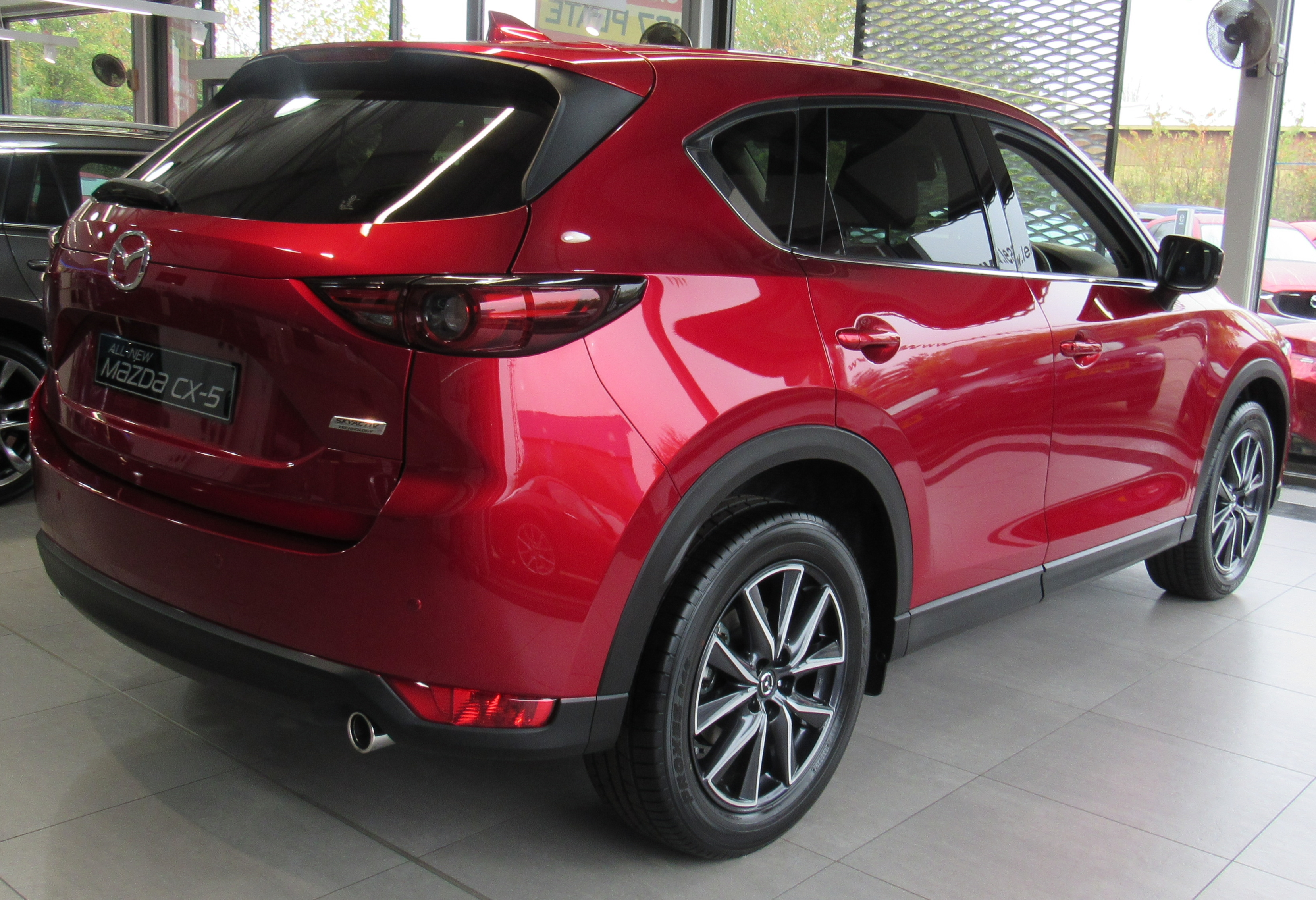 2017 Mazda CX-5 CDTi 2.2 Rear Taken in CMC Mazda, Leamington Spa